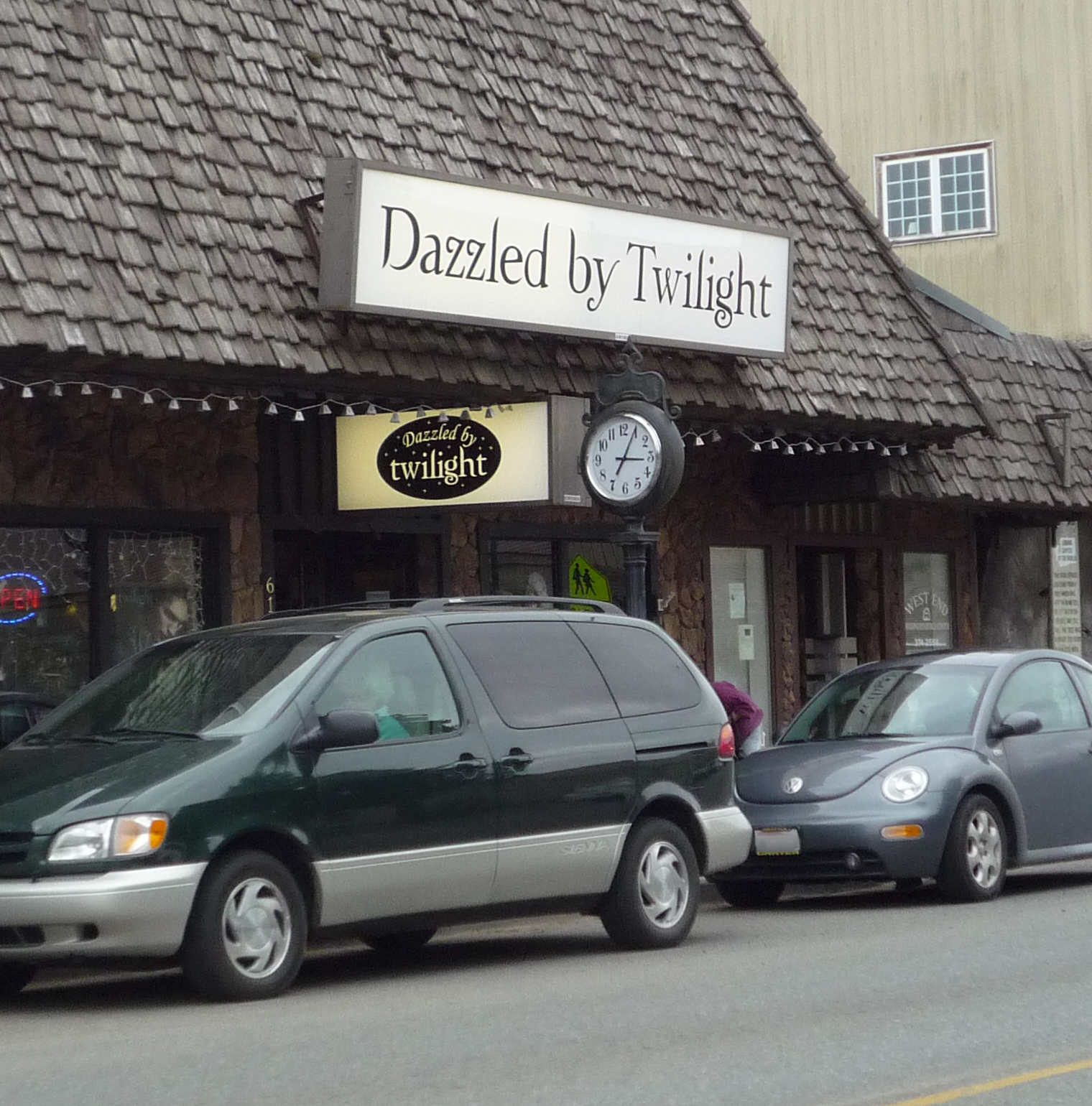 One of the stores aimed at fans of the Twilight series, Forks, Washington, USA.